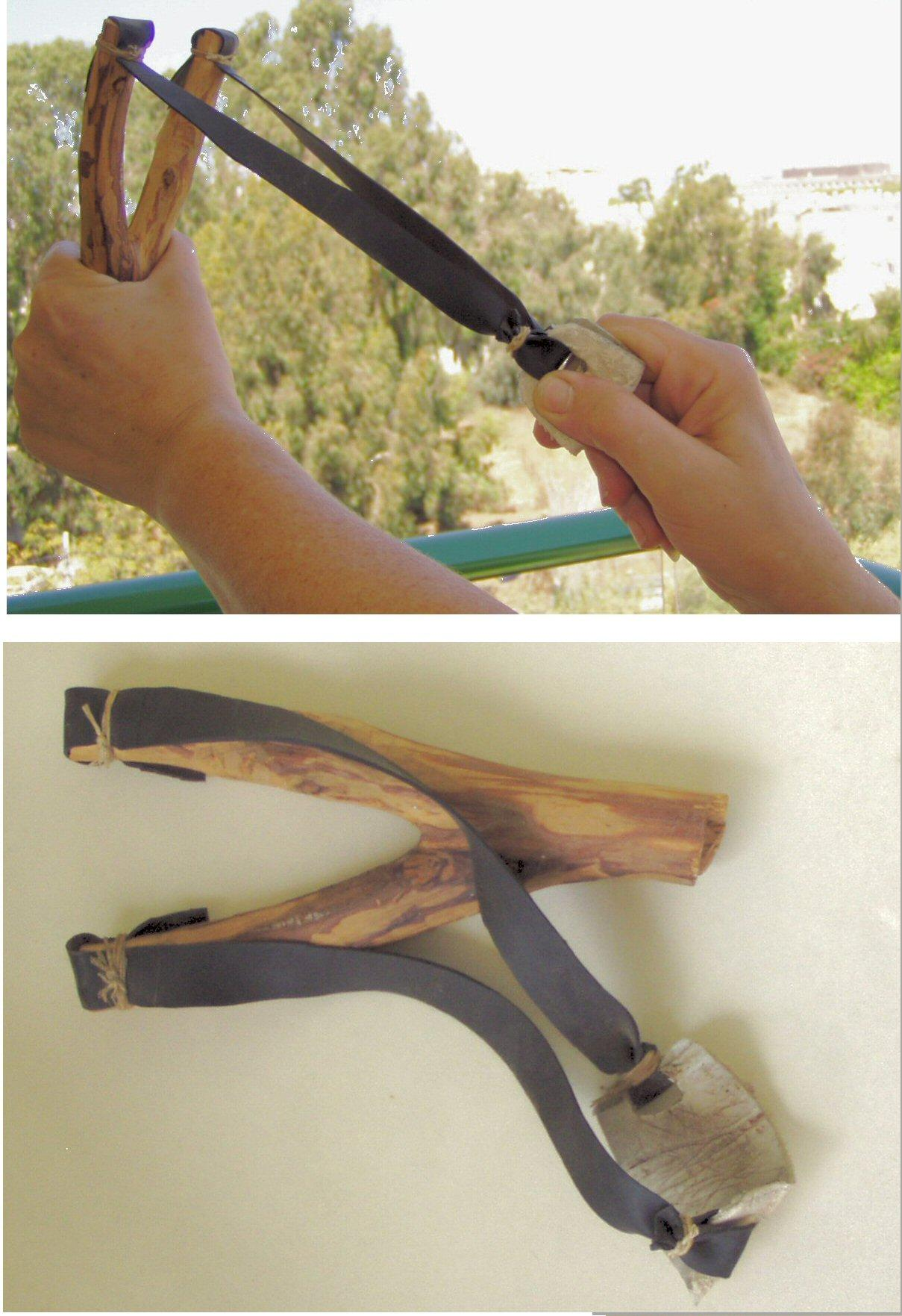 Rogatka, small hand catapult